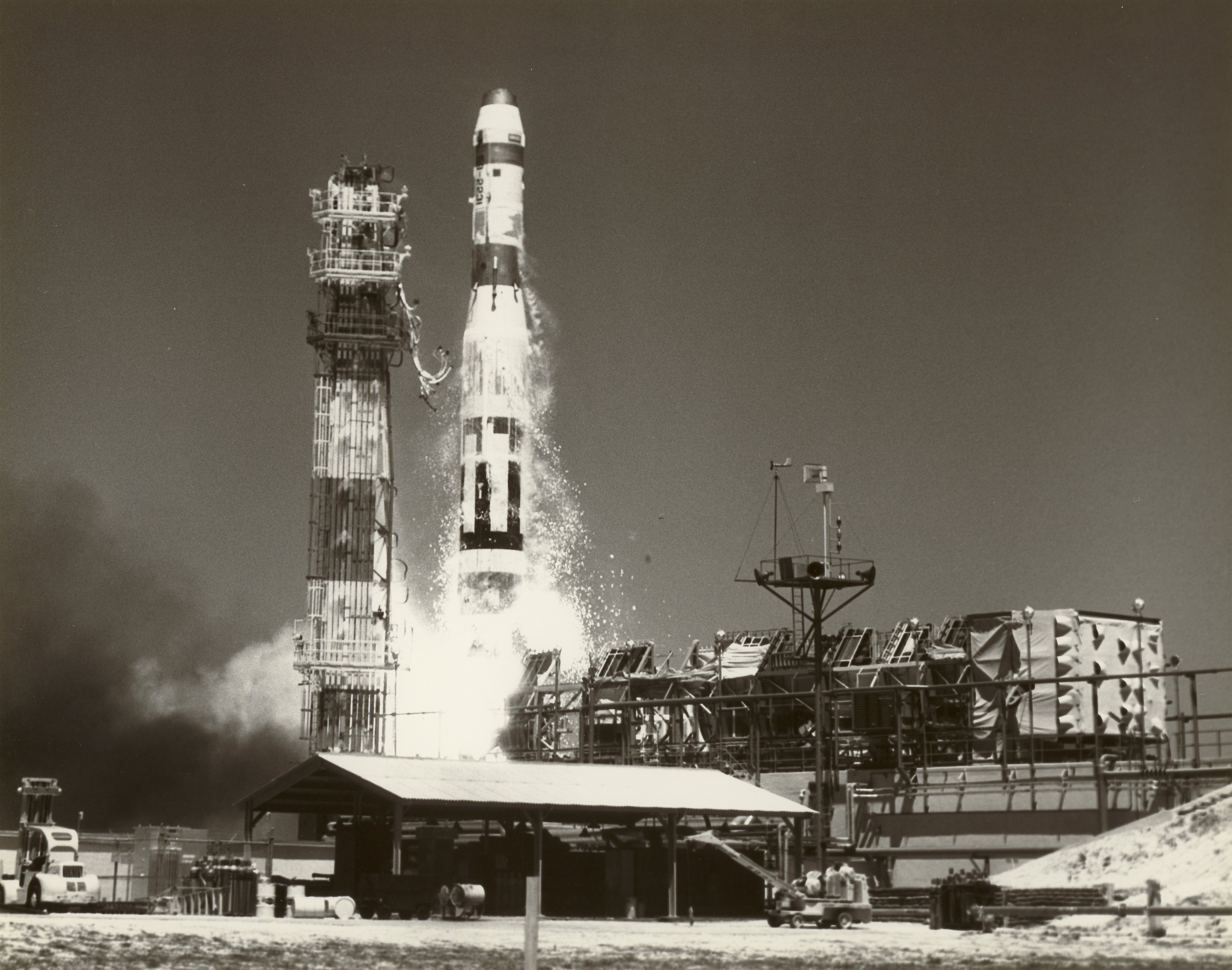 The Titan I C-1 lifts off from the Cape's Launch Complex 16. This RVX-3 Re-entry Vehicle Test mission was a failure as the second stage did not fire.